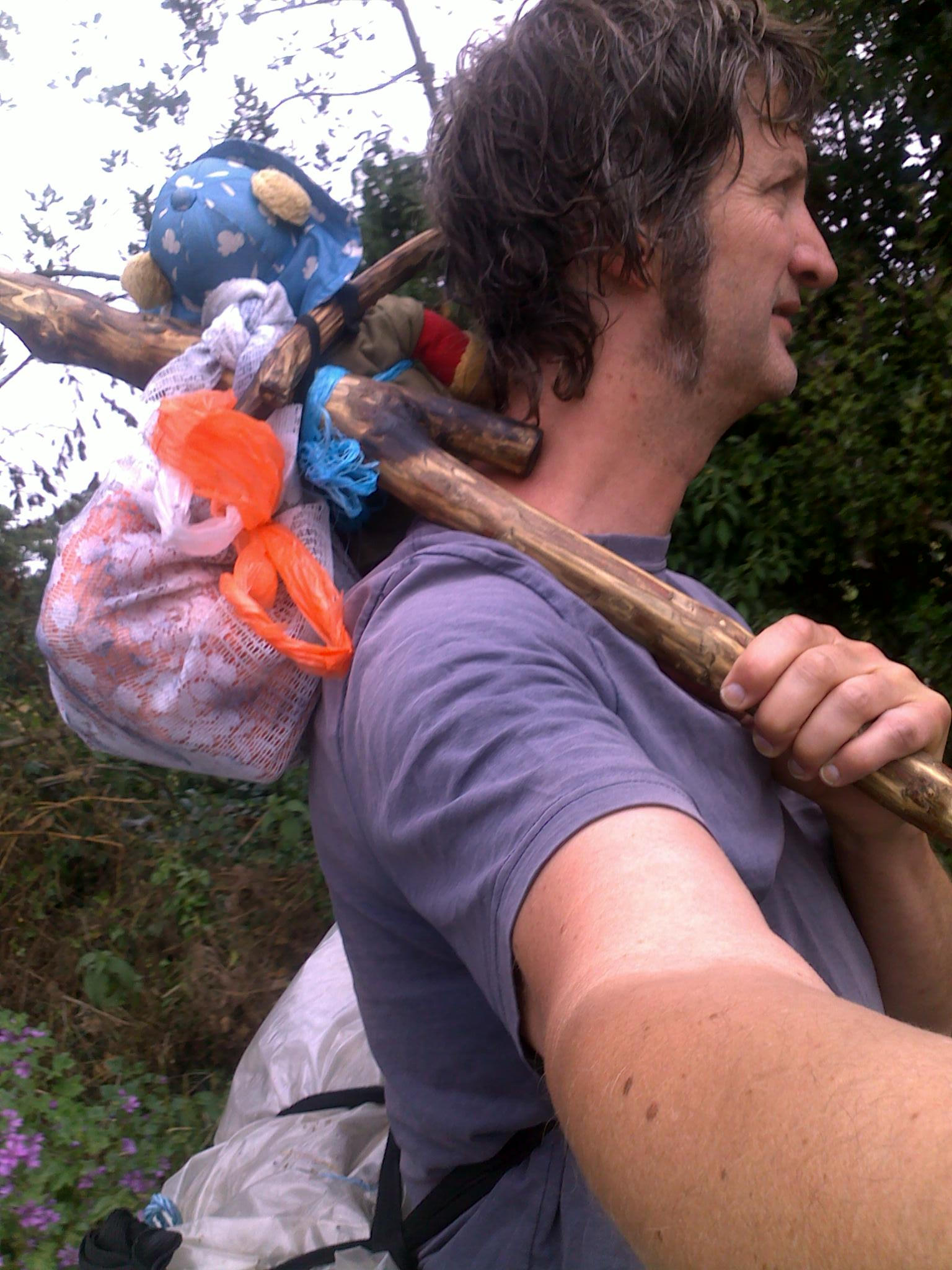 The crocodile dundee - and how it aids Julian's Arrival and Survival